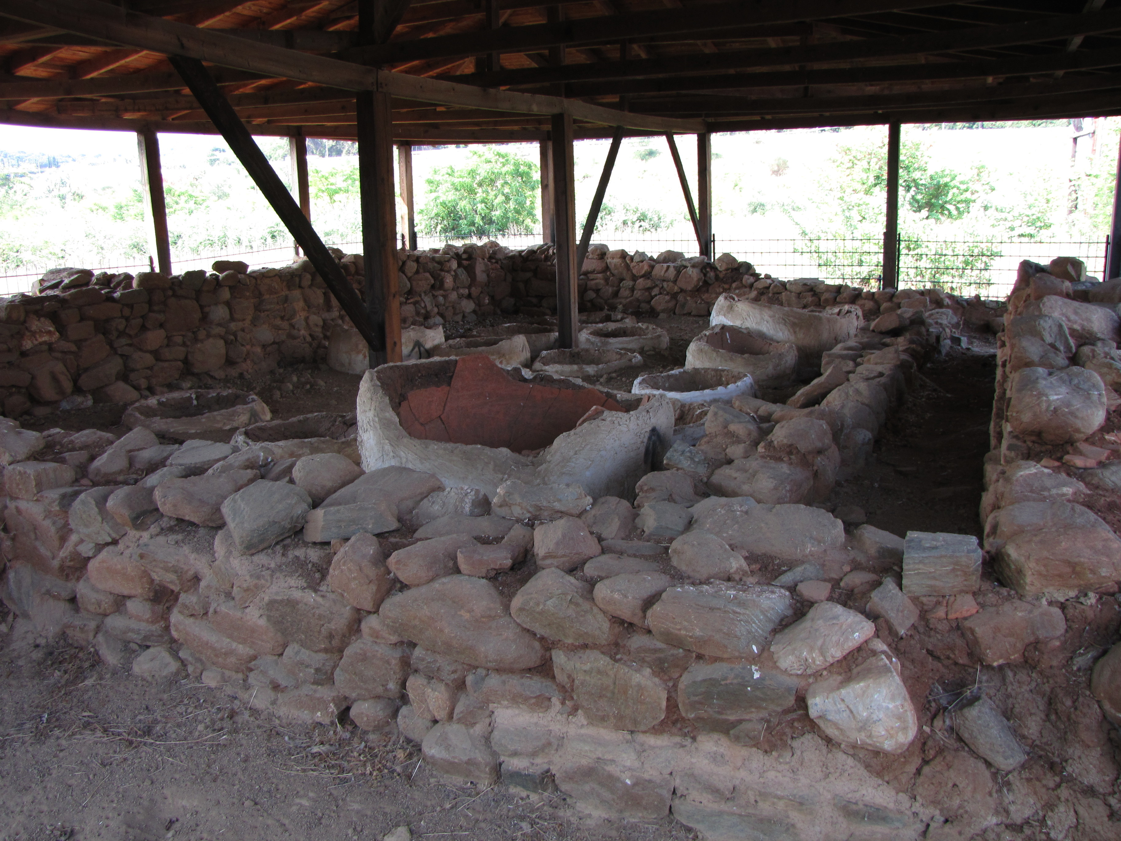 Tria Platania - clay storage vessels